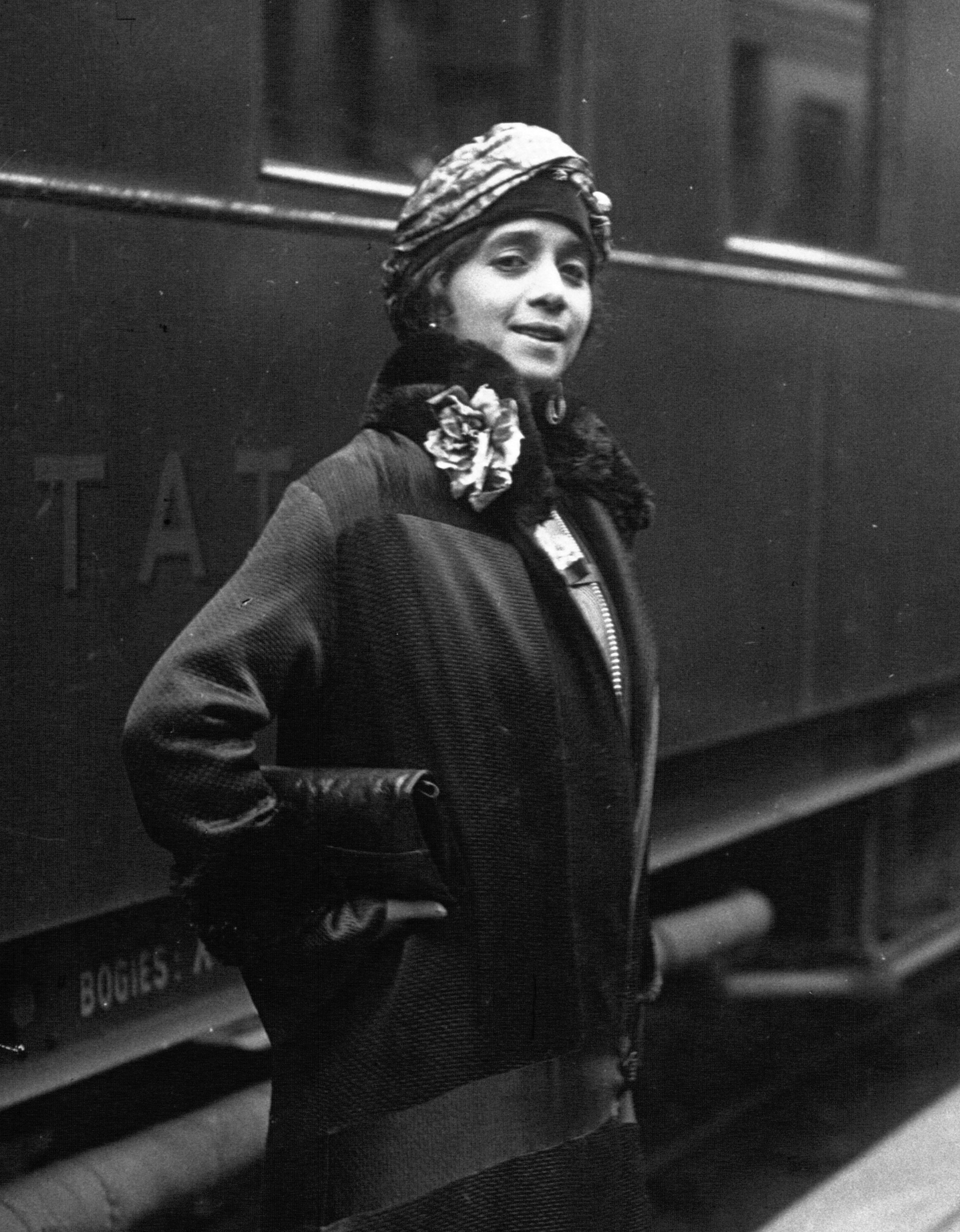 American operatic soprano Lillian Evanti (1880-1967) in France in 1926.